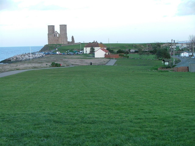 Site of Roman Fort at Reculver and disused church